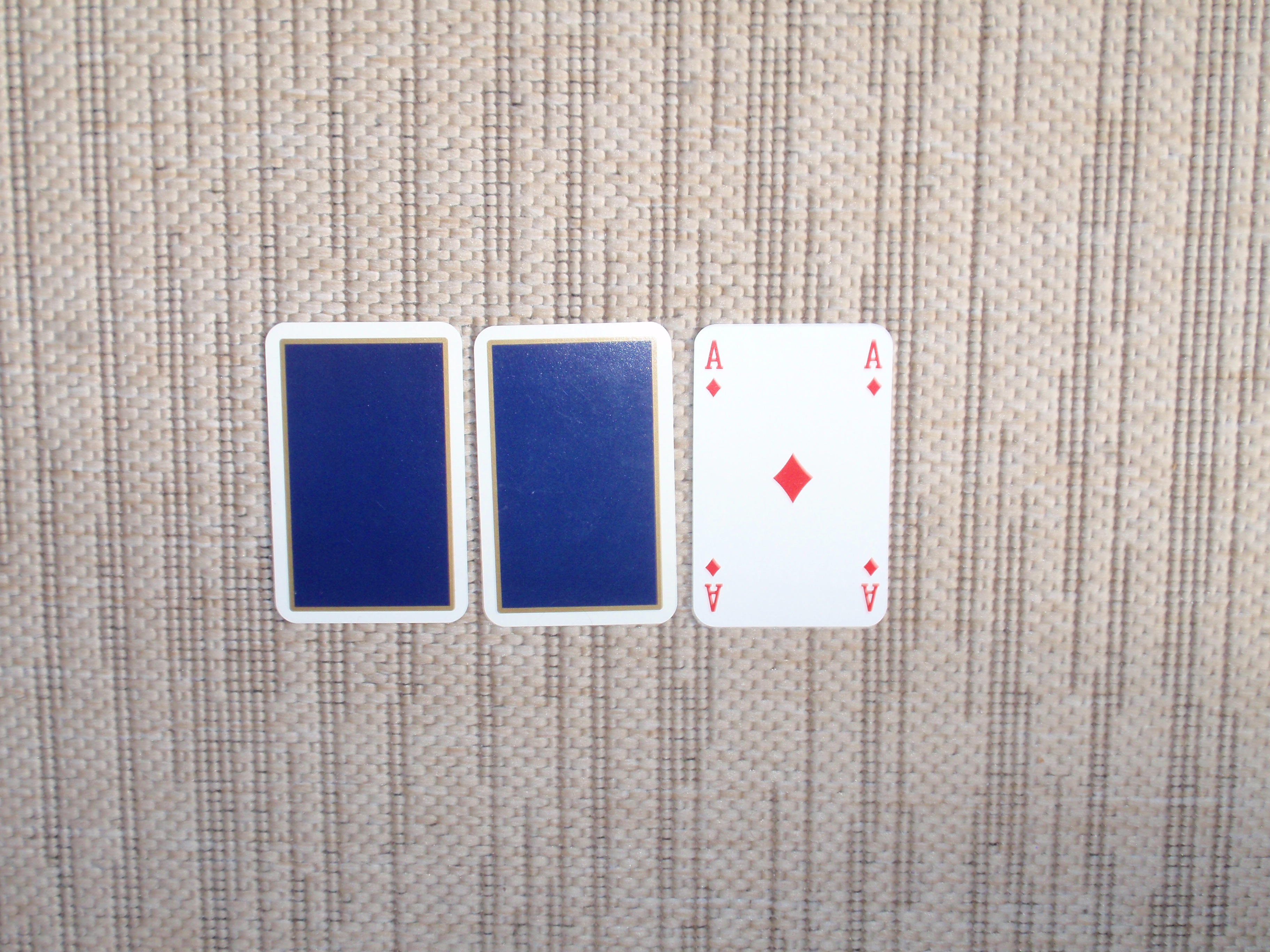 Razz - starting hand